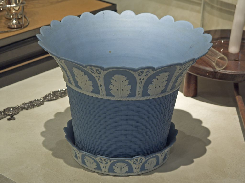 Wedgewood Jasper Ware jardinaire. Made in 1780. Editing undertaken: Unsharp Mask, Shadows/Highlights